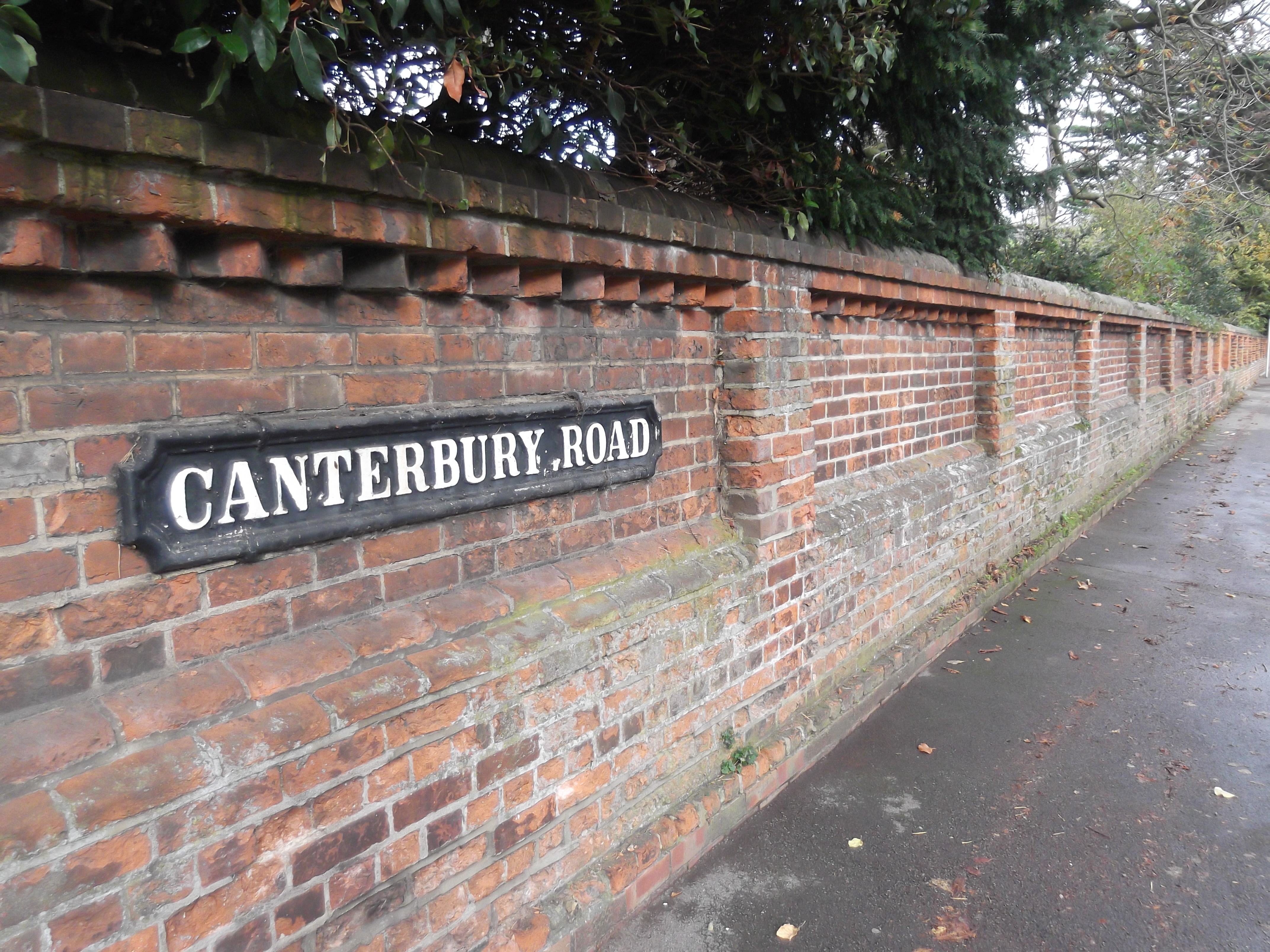 Red brick wall in Canterbury Road, North Oxford, England